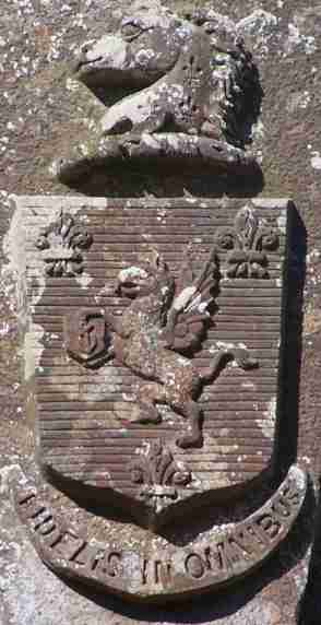 The Coat of Arms of the Collings Family (Seigneurs of Sark); at the Seigneurie gate.